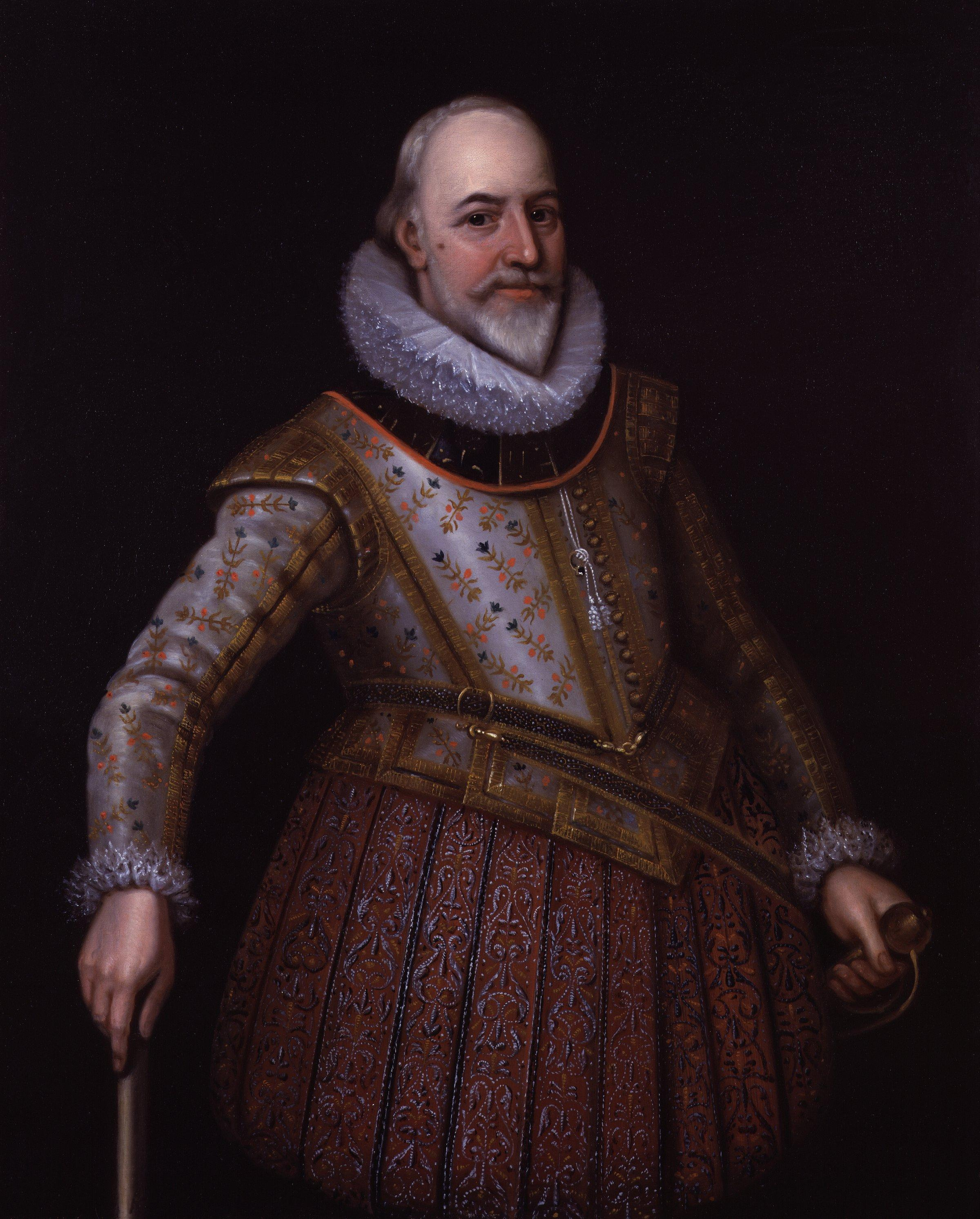 George Carew, Earl of Totnes, by unknown artist. All images in this batch are listed as "unknown author" by the NPG, who is diligent in researching authors, and was donated to the NPG before 1939 according to their website.